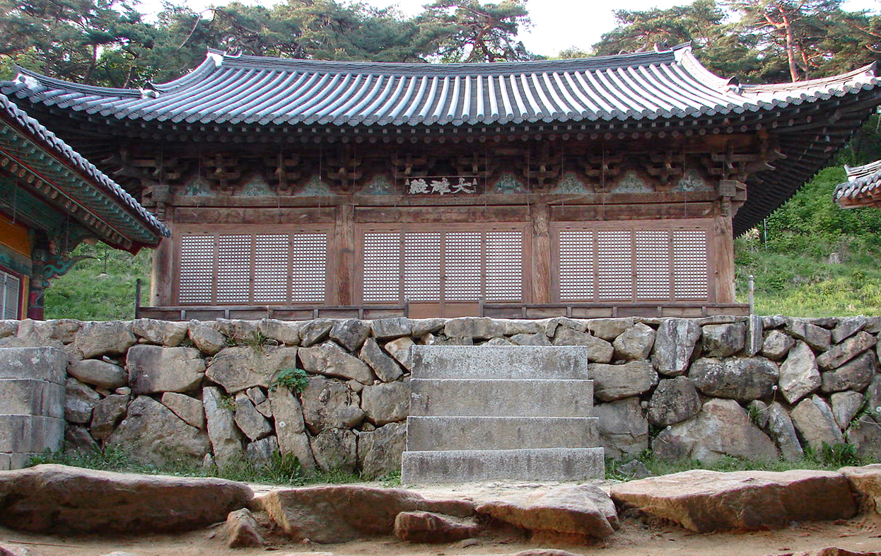 Bongjeongsa Daeungjeon Bongjeongsa is located at the southern foot of Mt. Cheondungsan, 16 kilometers northwest of Andong city. It was built by the Buddhist Priest Uisangchosa in 672 A.D. As the oldest wooden structure in Korea, it has historic and academic significance. Many important cultural properties, such as Gukrakjeon Hall, Daeungjeon (main prayer hall), Hwaomgangdang Hall, Gogumdang Hall and Muryanghaehoedang Hall are located in the temple compound. In particular, Gukrakjeon Hall is noteworthy, because it clearly shows unique Shilla architectural design unlike most other buildings which adopted Chinese designs.